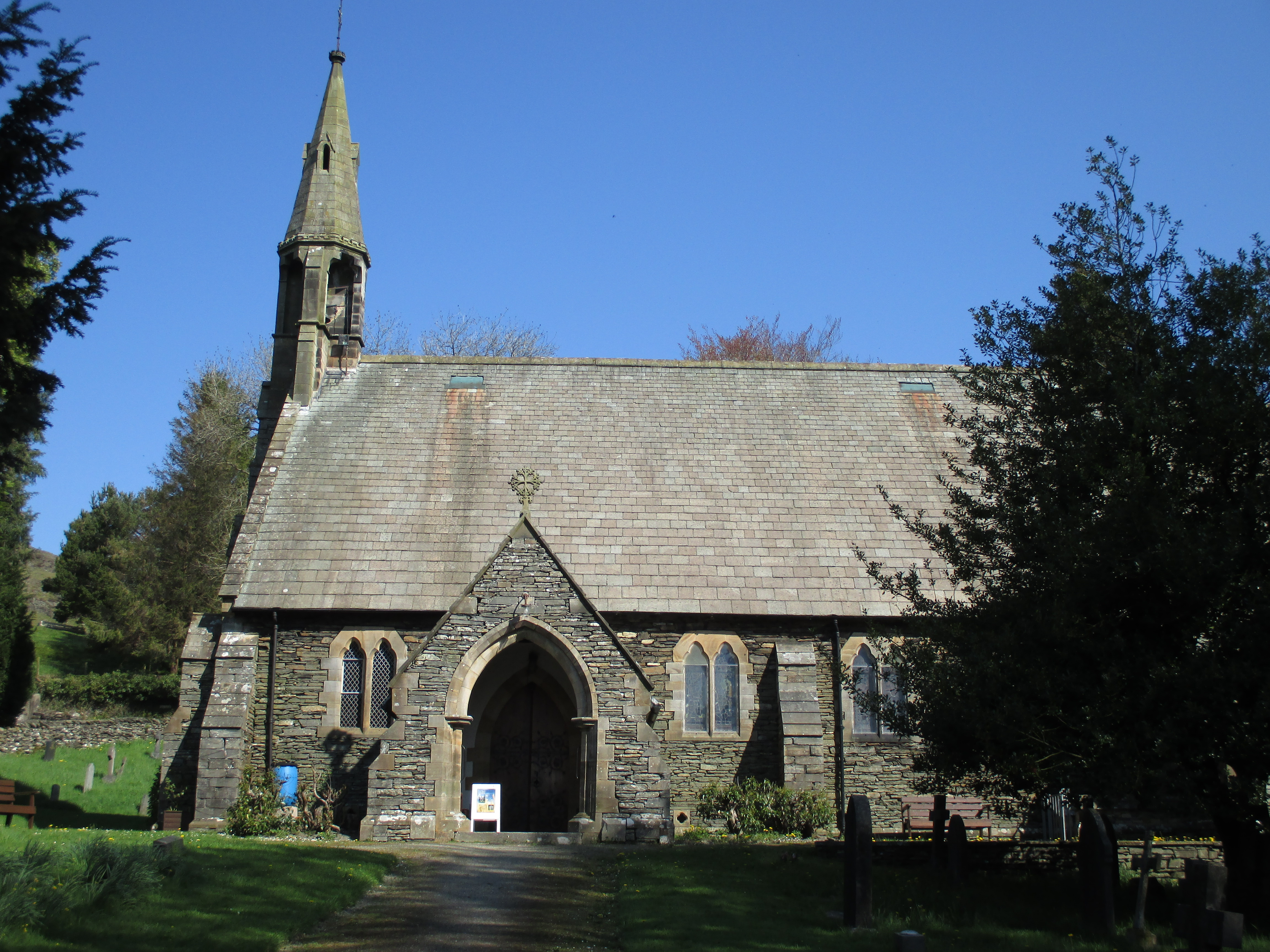 St. James's Church, Staveley, Cumbria, seen from the south.